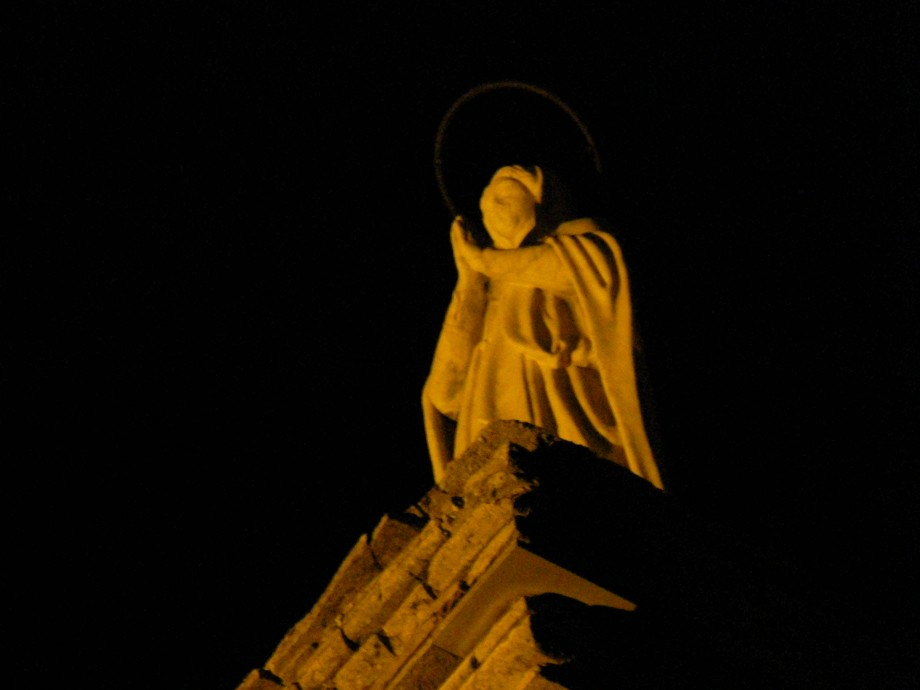 The statue of St. Cristoforo on the homonym hill of Atessa